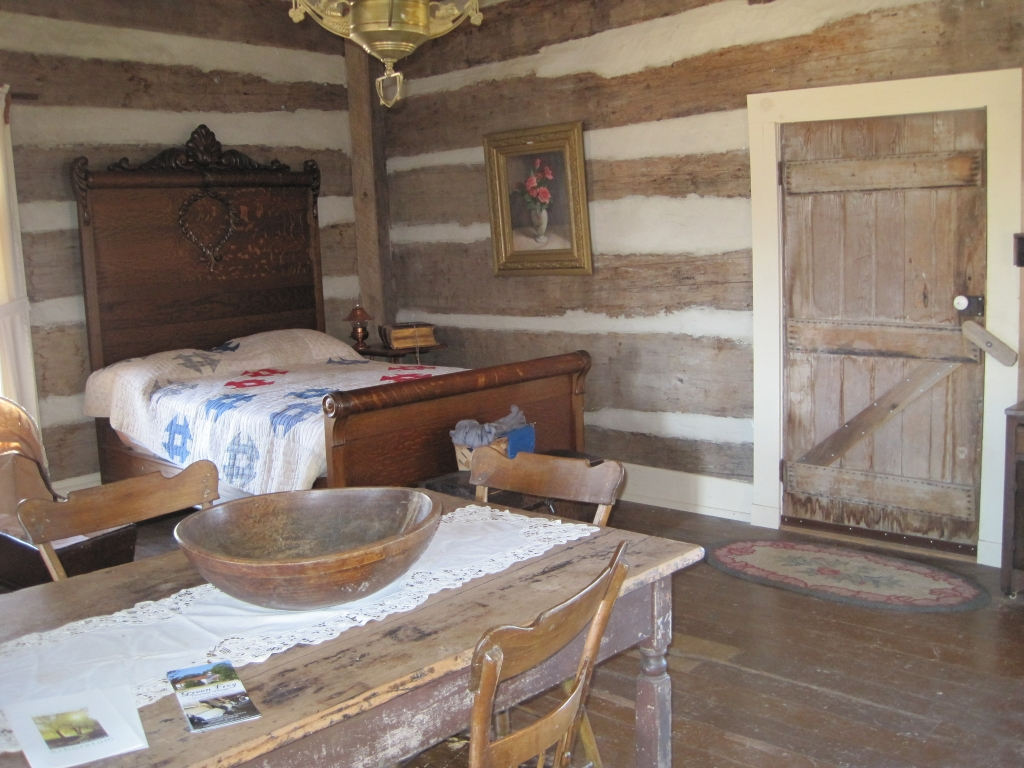 Green Frog Village in Bells, Tennessee. At the Green Frog Village historic buildings from the surrounding area have been re-built. The museum is open to the public and offers self-guided tours.